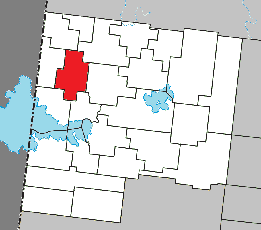 Location of Dupuy, Quebec within Abitibi-Ouest Regional County Municipality.